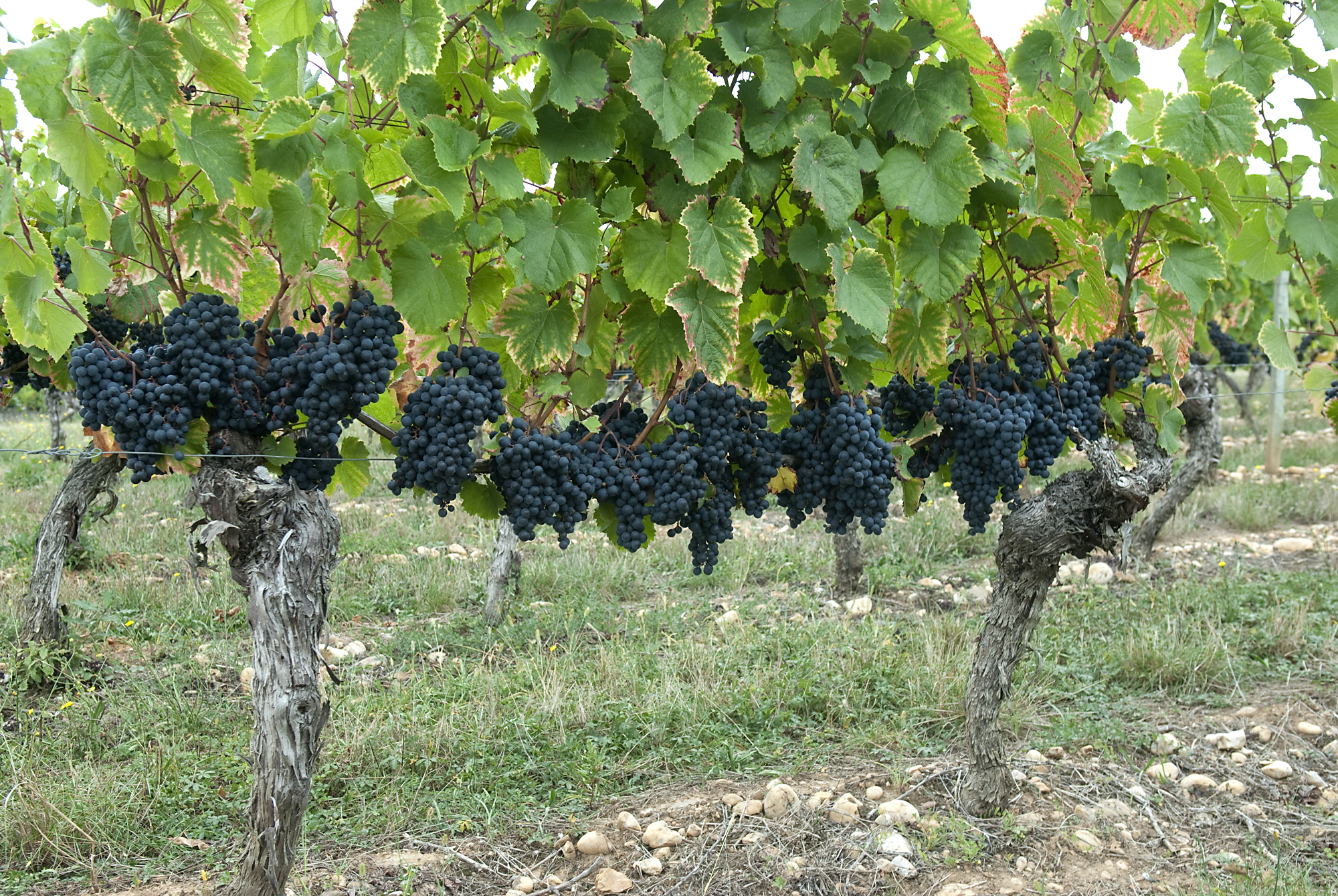 cahors vineyards grapes (luzech - october 2009) 2